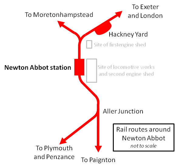 A diagram showing the railway routes around Newton Abbot in Devon, England. Not to scale.